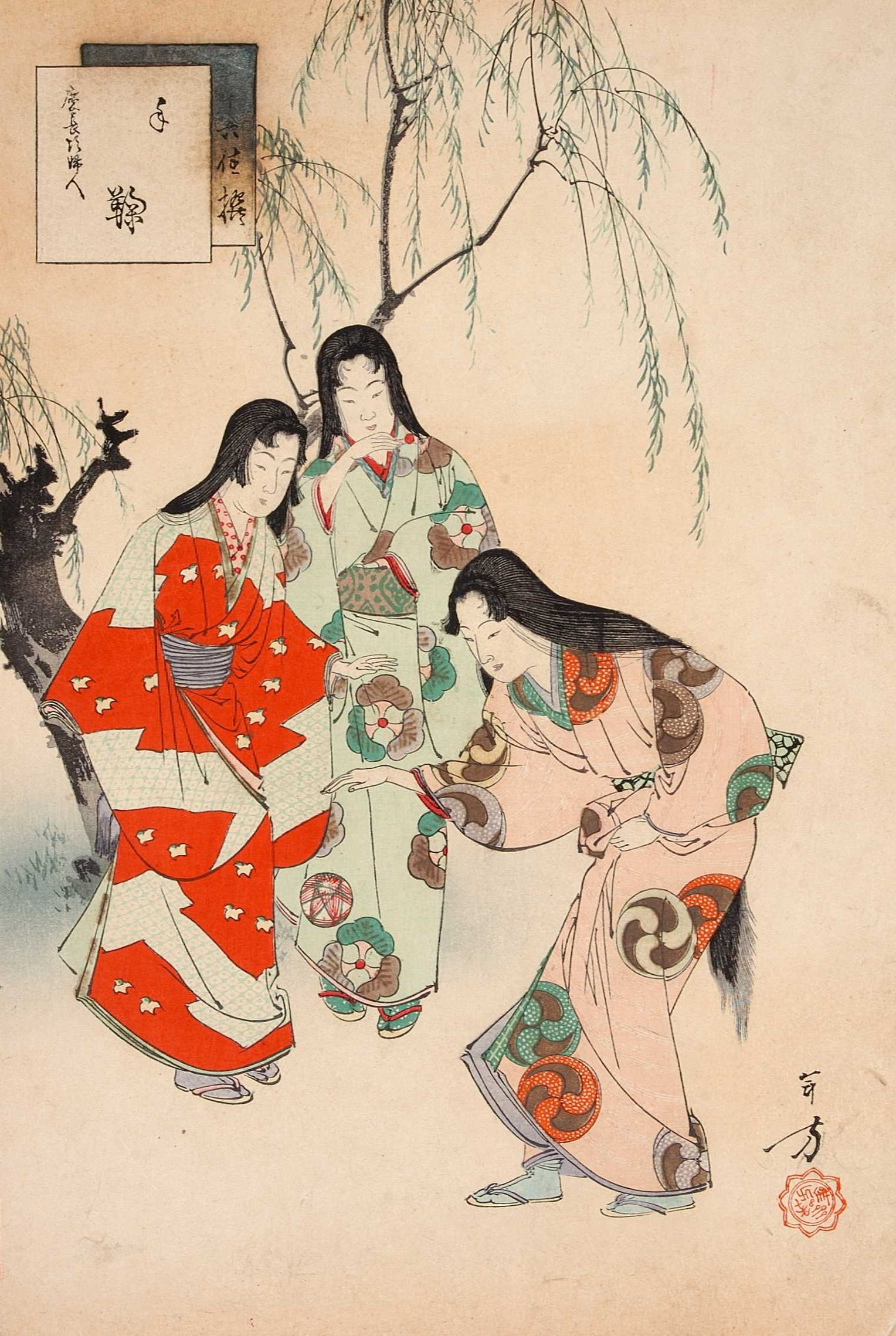 Temari: Women of the Keichō Era[1596-1615], from the series Thirty-six Elegant Selections, woodblock print